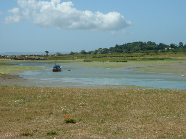 Low Water on Calshot Marshes This is viewed from the Spit looking toward Calshot Village which is on the right. The beach huts are on the left of the picture.